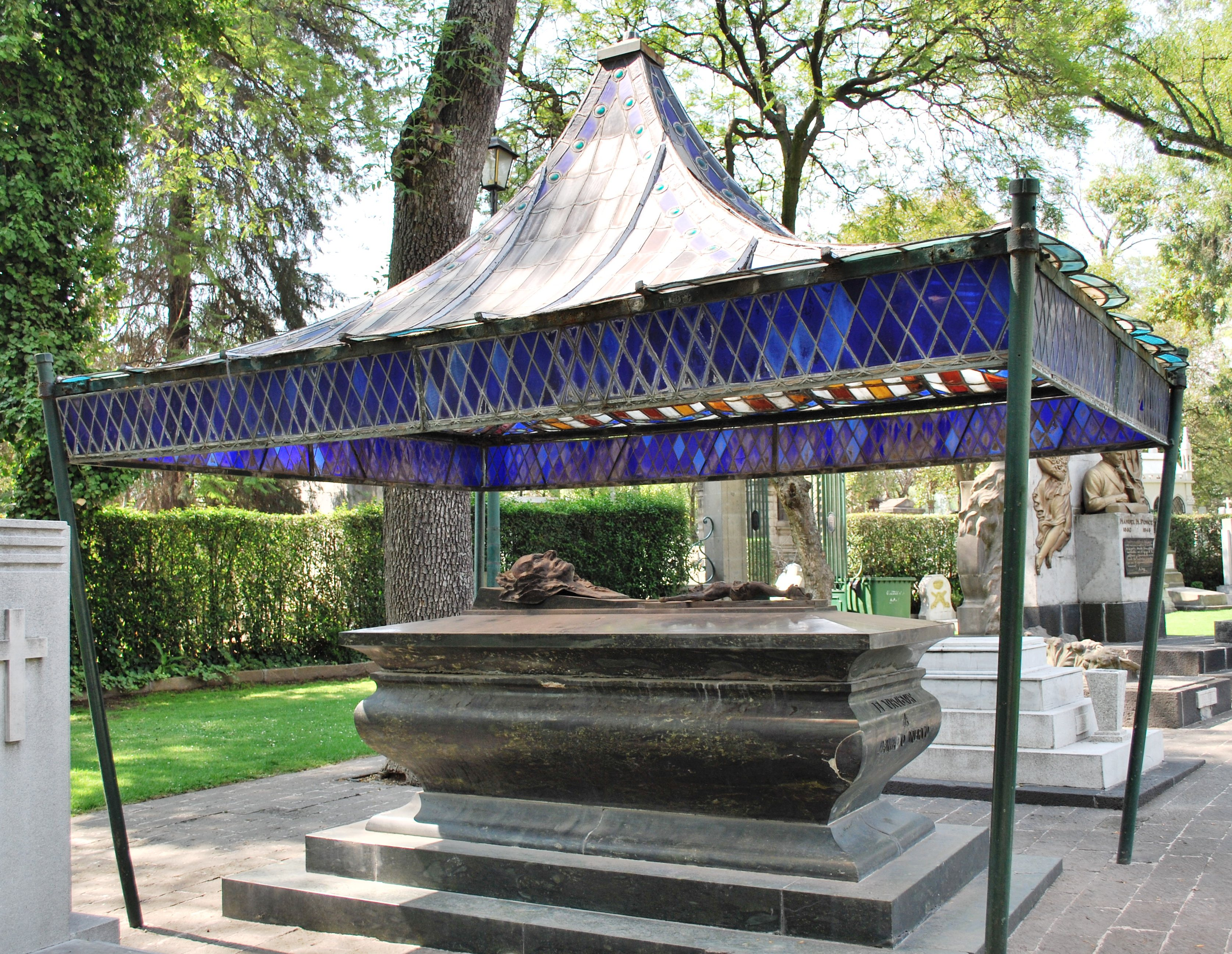 Tomb of Amado Nervo in the Panteon Civil de Dolores cemetery in Mexico City